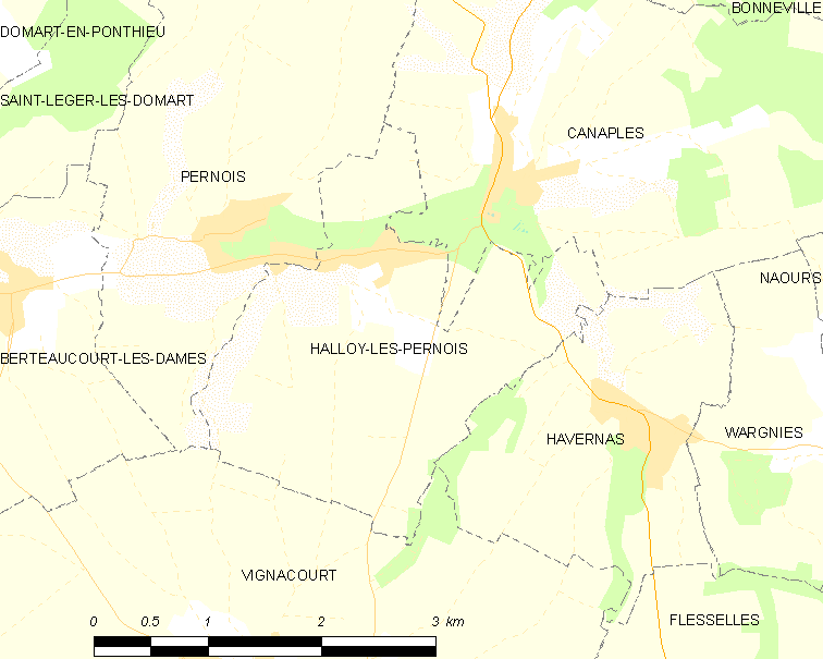 Map of French municipality Halloy-lès-Pernois